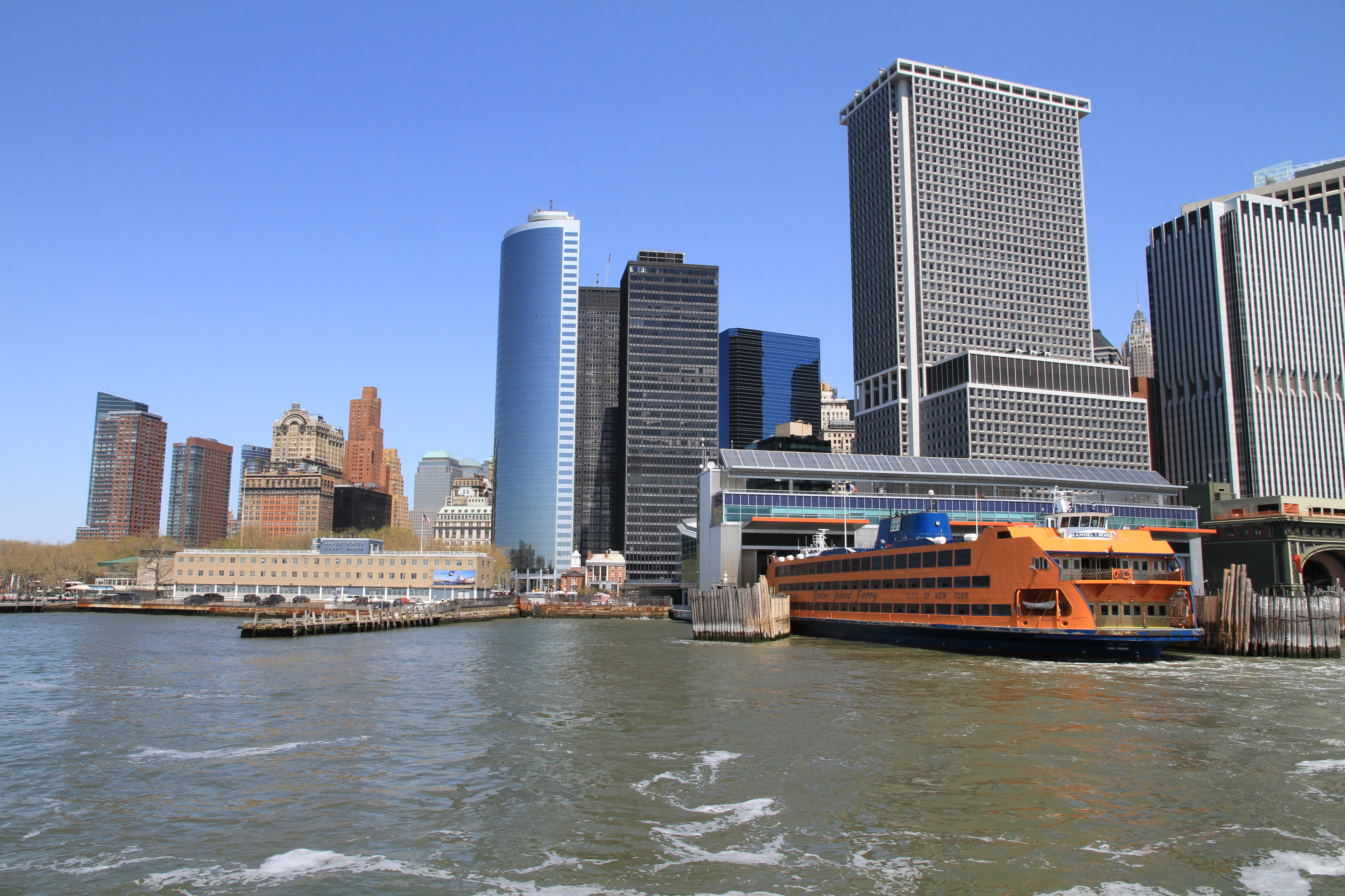 Staten Island Ferry